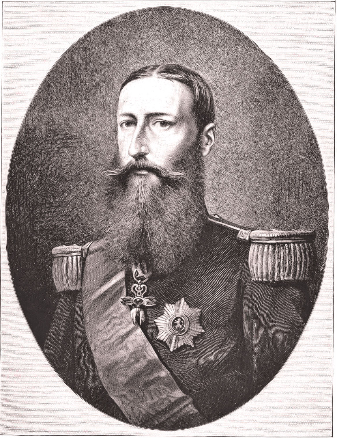 Old engraving of Léopold II, king of the Belgians. Drawing : Eug. Devaux, engraver : F. Pannemaker, 1880.